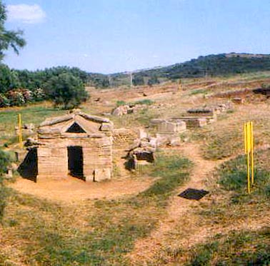 Necropolis of the Italian city Populonia.